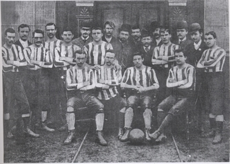 Celtic F.C. photographed some time prior to 1903 (which is when their kit changed to hooped jerseys)